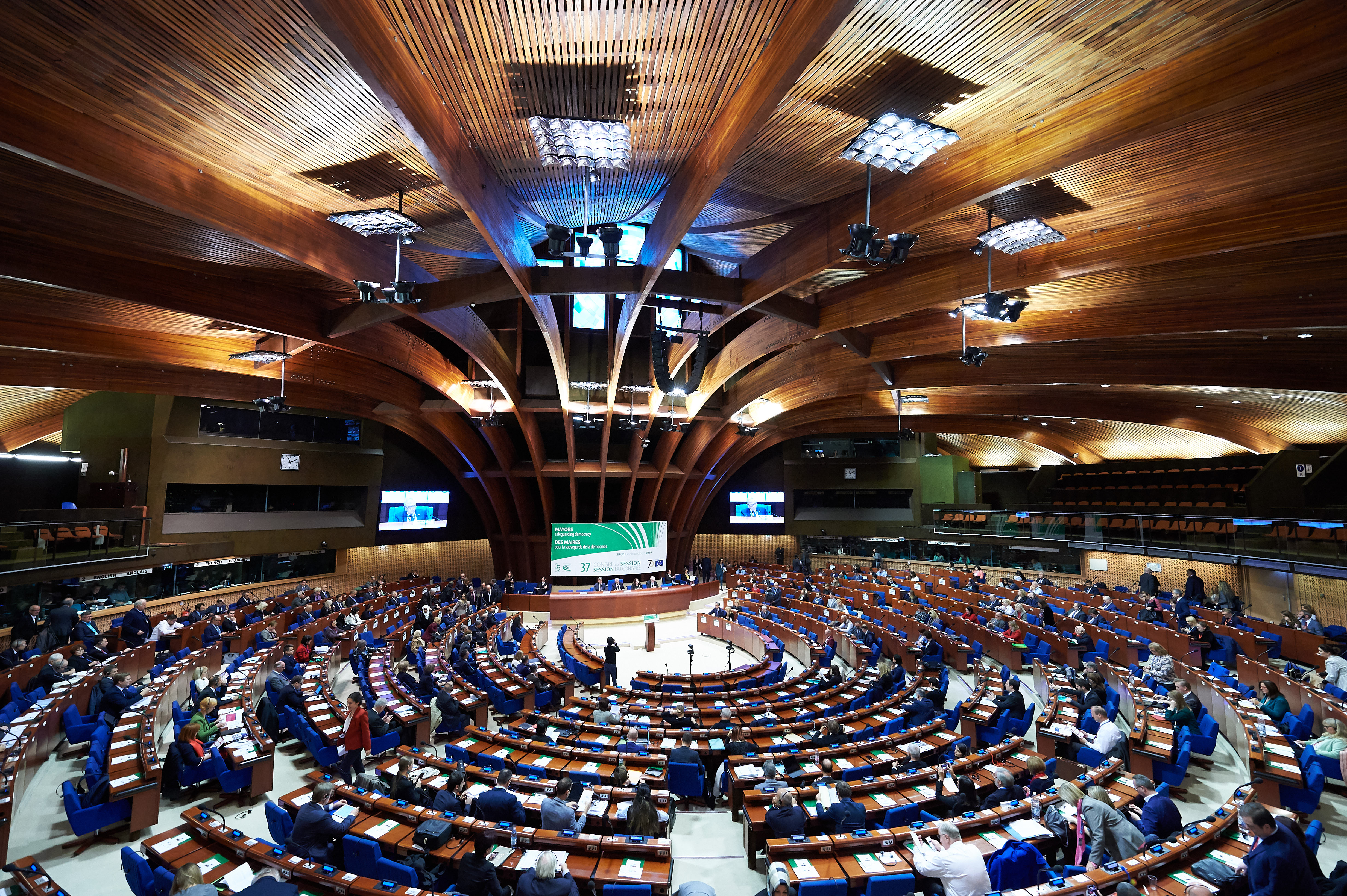 37th Session of the Congress - opening of the Session